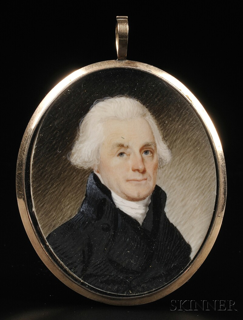 Thomas Jefferson By Robert Field 1800